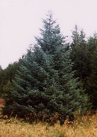 Young Sitka Spruce in a forestry plantation in Britain - photo User:MPF Also see File:QuinaltSpruce_7246c.jpg